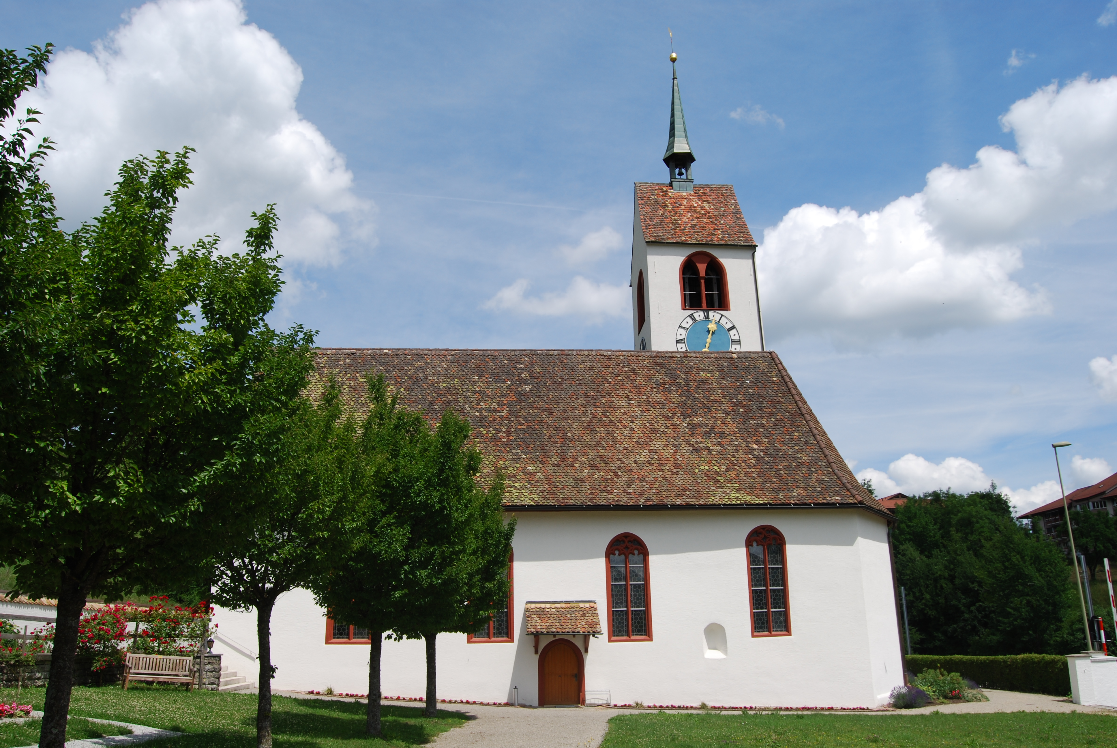 Protestant church of Oberdorf, canton of Basel-Country, Switzerland